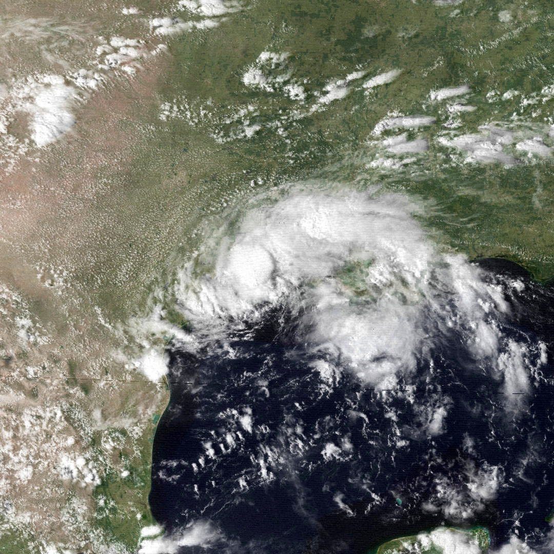 Tropical Storm Danielle at peak intensity making landfall near the Texas-Louisiana border on September 5, 1980